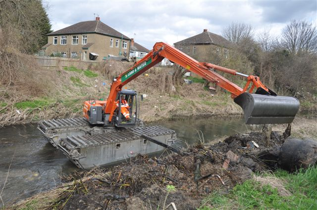 Amphibious-Excavator ZX-70. Floating long reach excavator From Land and Water Plant Hire engaged in river restoration.